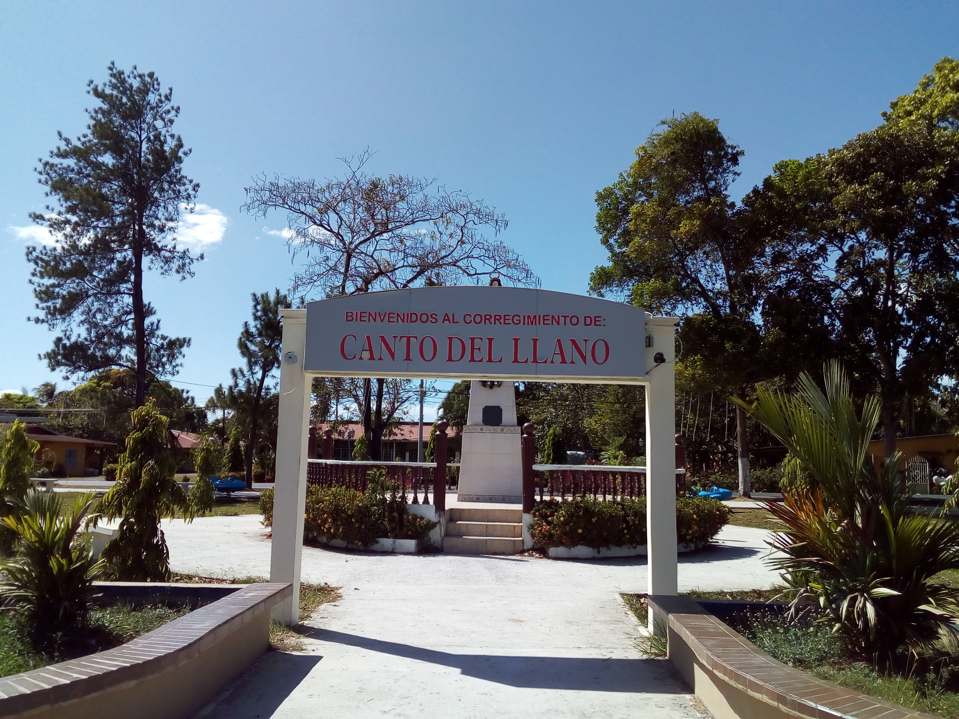 Main park of Canto del Llano, Santiago de Veraguas, Panama.